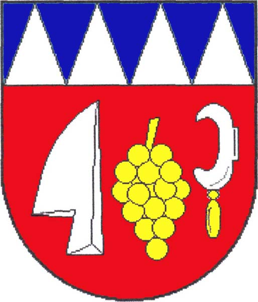 Municipal coat of arms of Hostěrádky-Rešov village, Vyškov District, Czech Republic.